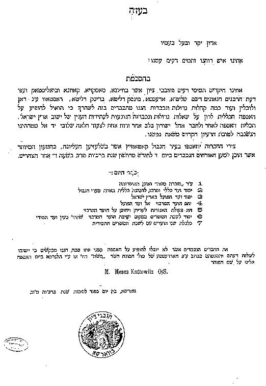 Hebrew invitaion to the Kattowitz Conference